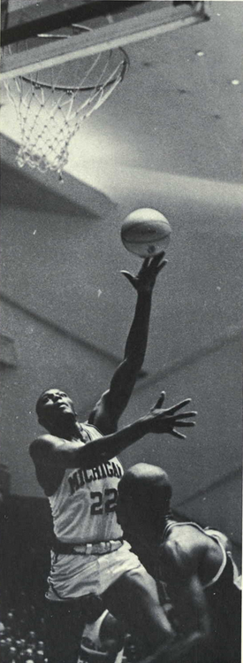 Photograph of Bill Buntin